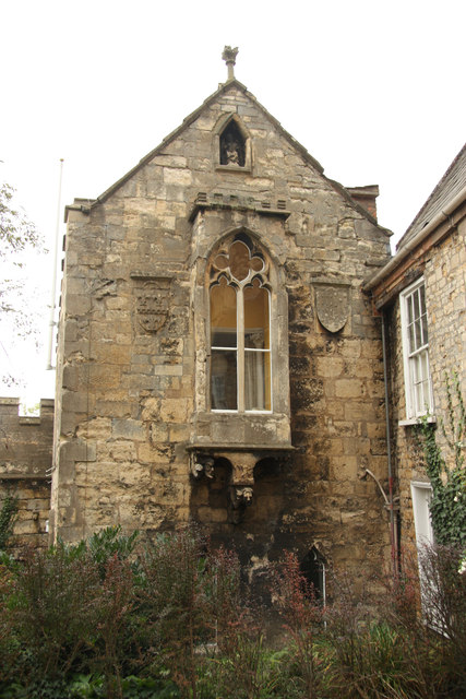 Cantilupe Chantry south, Lincoln Cathedral. North gable has a hipped stone oriel window on C14 figured corbels, with C19 tracery. See listed building text[1]. On either side, shields with the arms of Cantilupe of Greasley and Zouch of Lubbesthorpe, Leicestershire. Above, a moulded niche with a seated figure. Built by Nicholas de Cantilupe, 3rd Baron Cantilupe (c.1301-1355) of Greasley Castle, Nottinghamshire, to house his chantry priests, with consent of William de la Zouche (1299–1352), Archbishop of York from 1342-52, until his death (youngest son of Sir Roger de la Zouche (d.1302) of Lubbesthorpe in Leicestershire (younger brother of William la Zouche, 1st Baron Zouche (1276–1351) of Harringworth, Northamptonshire)). Archbishop Zouche was a son of the second cousin of Nicholas de Cantilupe, both Lubbesthorpe and Harringworth were former Cantilupe manors inherited by the Zouche family from the senior line of Cantilupe, Lord of Abergavenny, after the death of Sir George de Cantilupe (1251-1273). Oriel window, shield at left, arms of Cantilupe of Greasley; at right Zouche of Lubbesthorpe, Leicestershire: (Azure, ten bezants, 4,3,2,1 a difference of the arms of the senior branches of Zouche (of Ashby and of Haryngworth, who bore Gules, ten bezants, 4,3,2,1). Extended 1366. Restored and remodelled c1843-1845. See more detailed image[2]. Tracing of Zouche arms